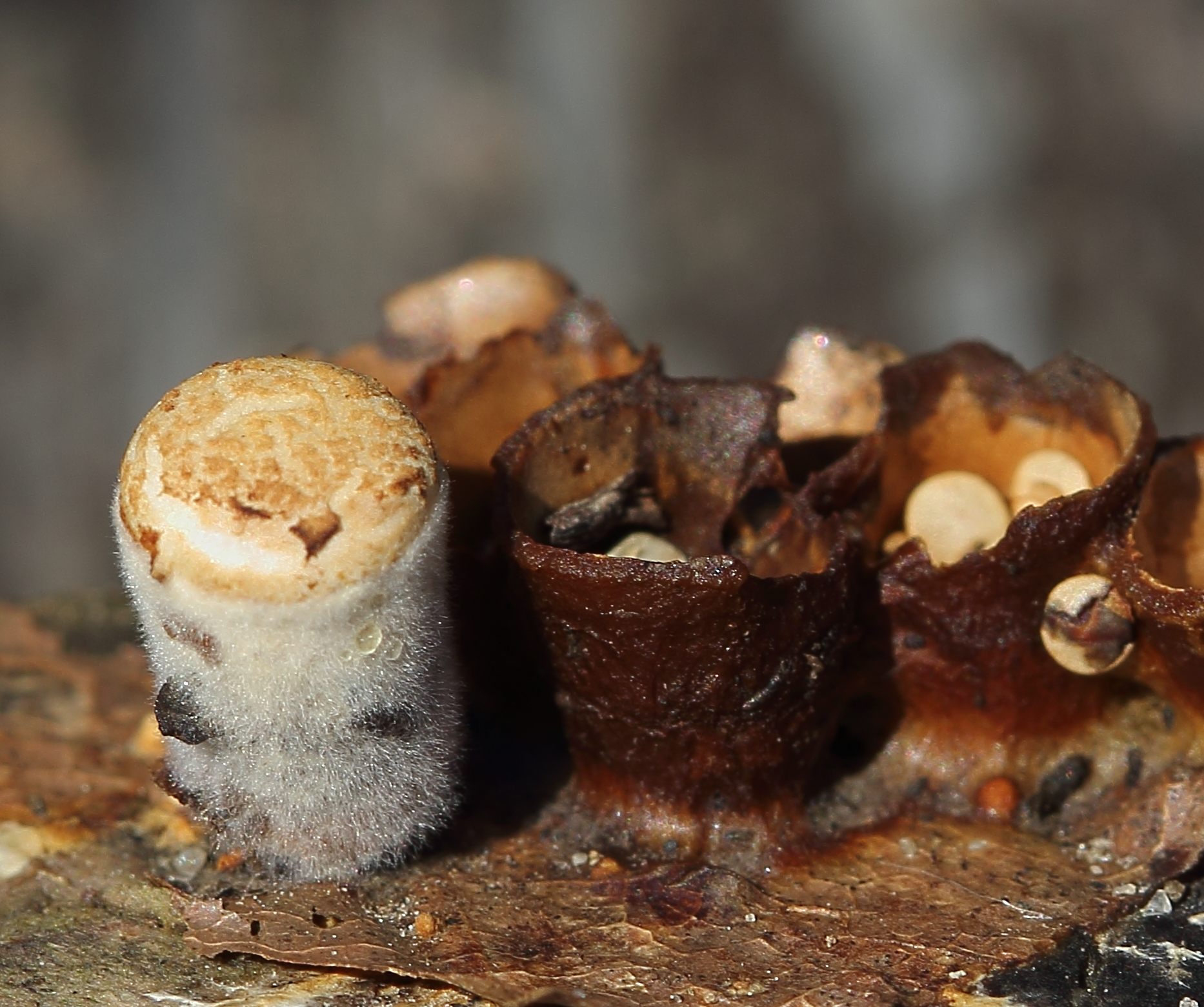 Cyathus on dead wood found in private garden